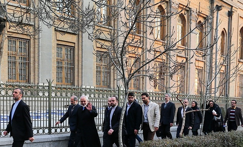 Iranian Foreign Minister, Mohammad Javad Zarif departures to his office by using metro in national healthy air day